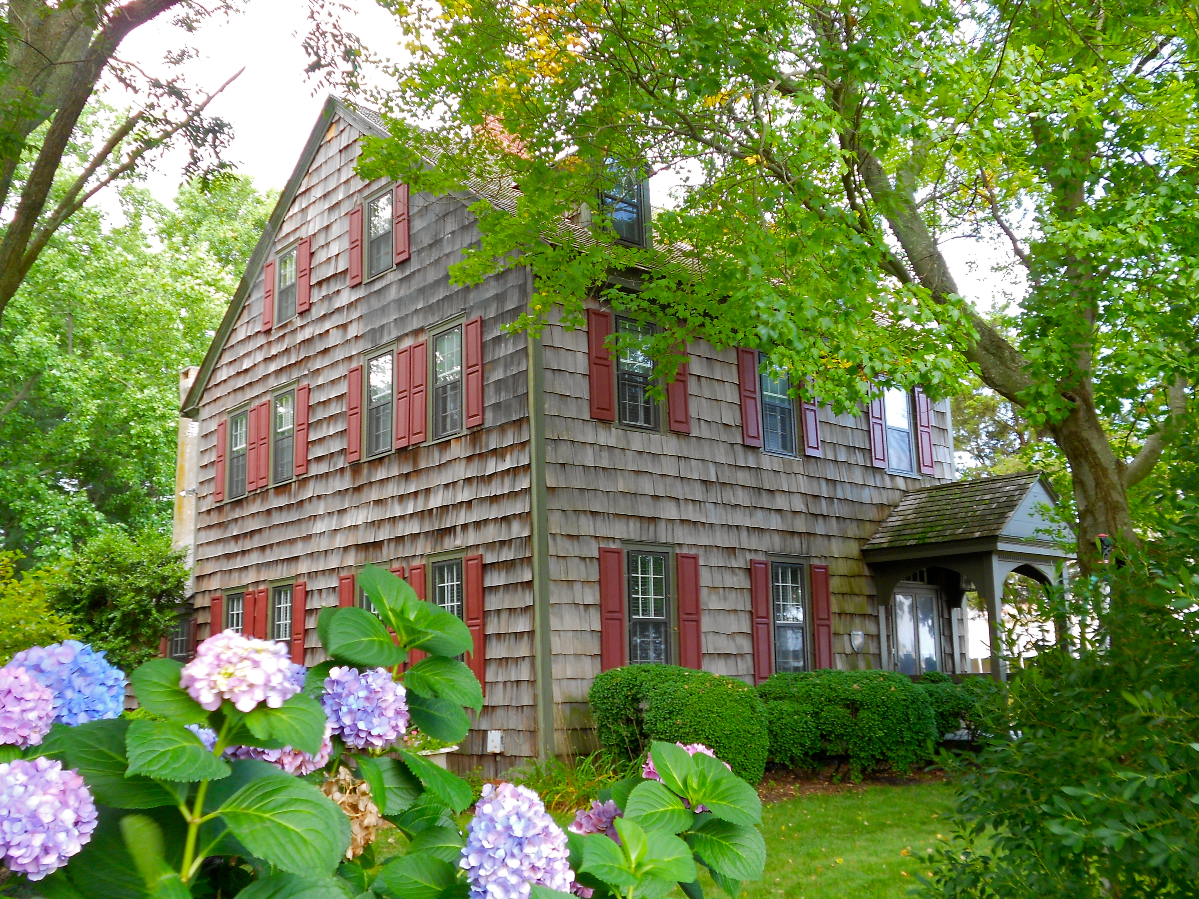 Fisher's Paradise on the NRHP since December 4, 1972. At 624 Pilottown Rd., Sussex County, Lewes, Delaware